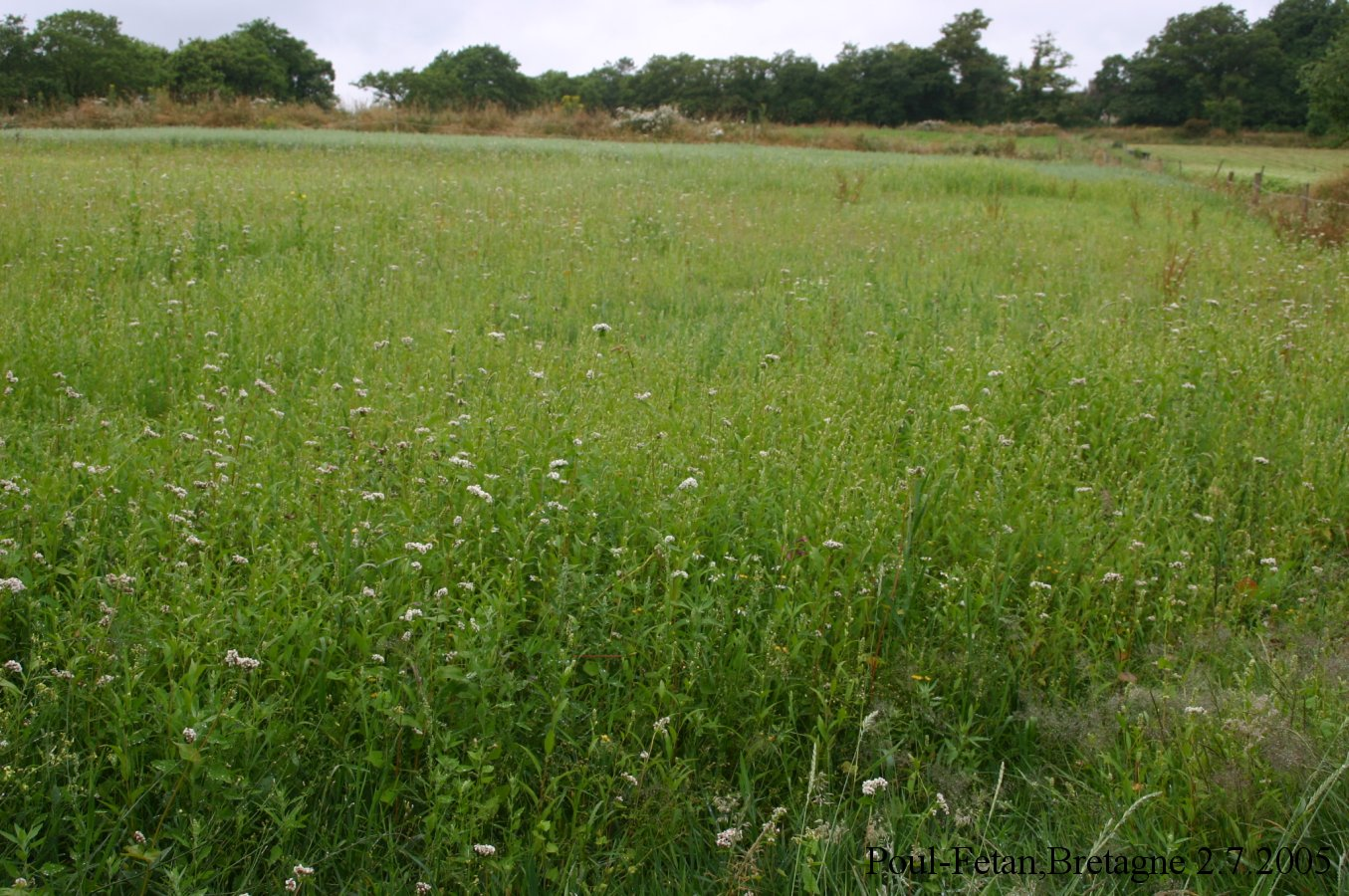 Museum of Poul-Fetan in eastern Brittany. The picture is showing a field of Blé noir (i.e. Fagopyrum esculentum)